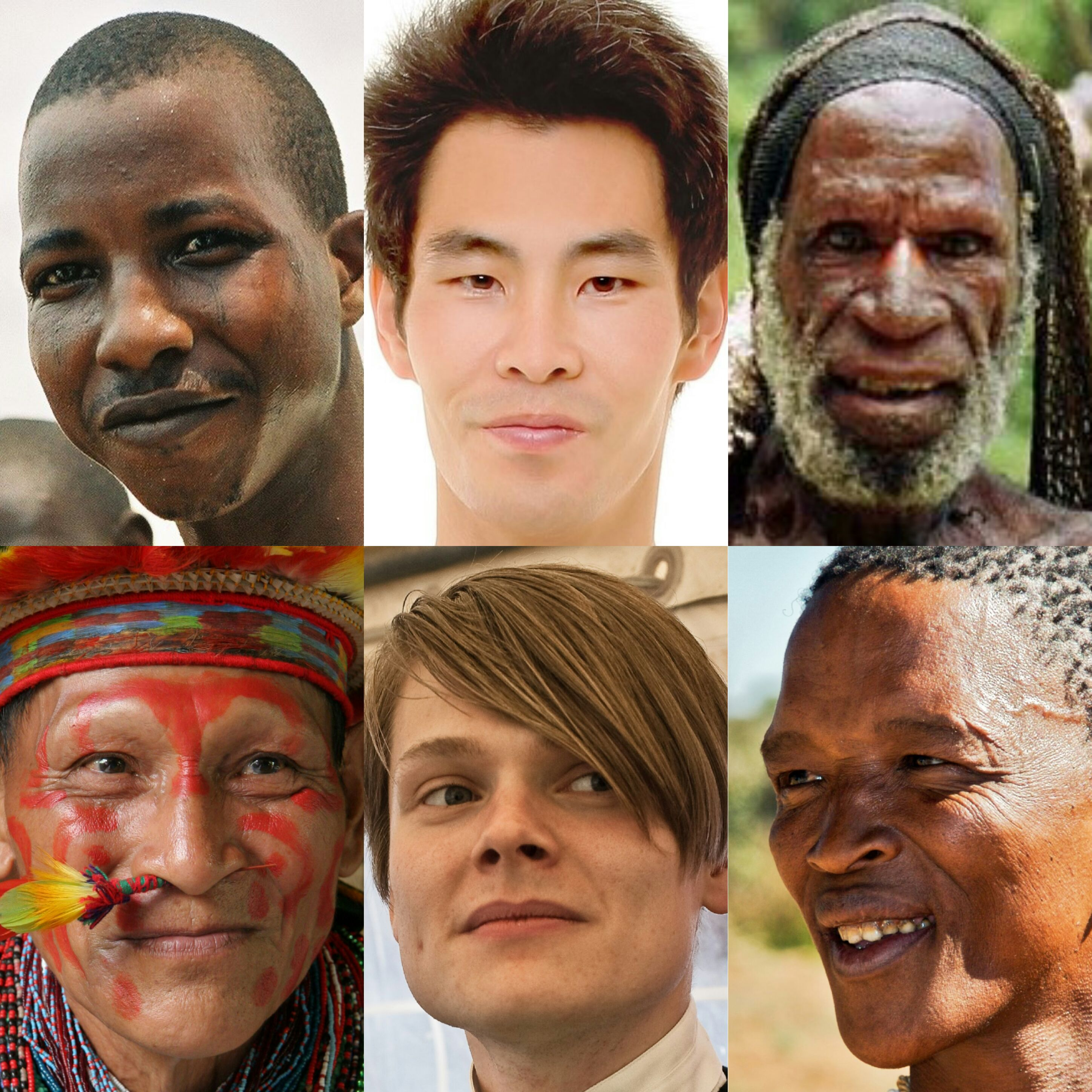 Collage of male human faces: Hausa man from Northern Nigeria ; man of Asian descent; Yali tribesman in the Baliem Valley; shaman in the Amazon rainforest; Icelander; San man.